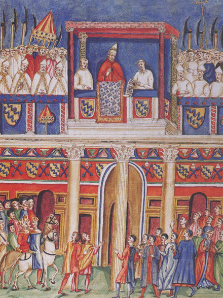 Pope Boniface VIII proclames jubilee on 22th February 1300